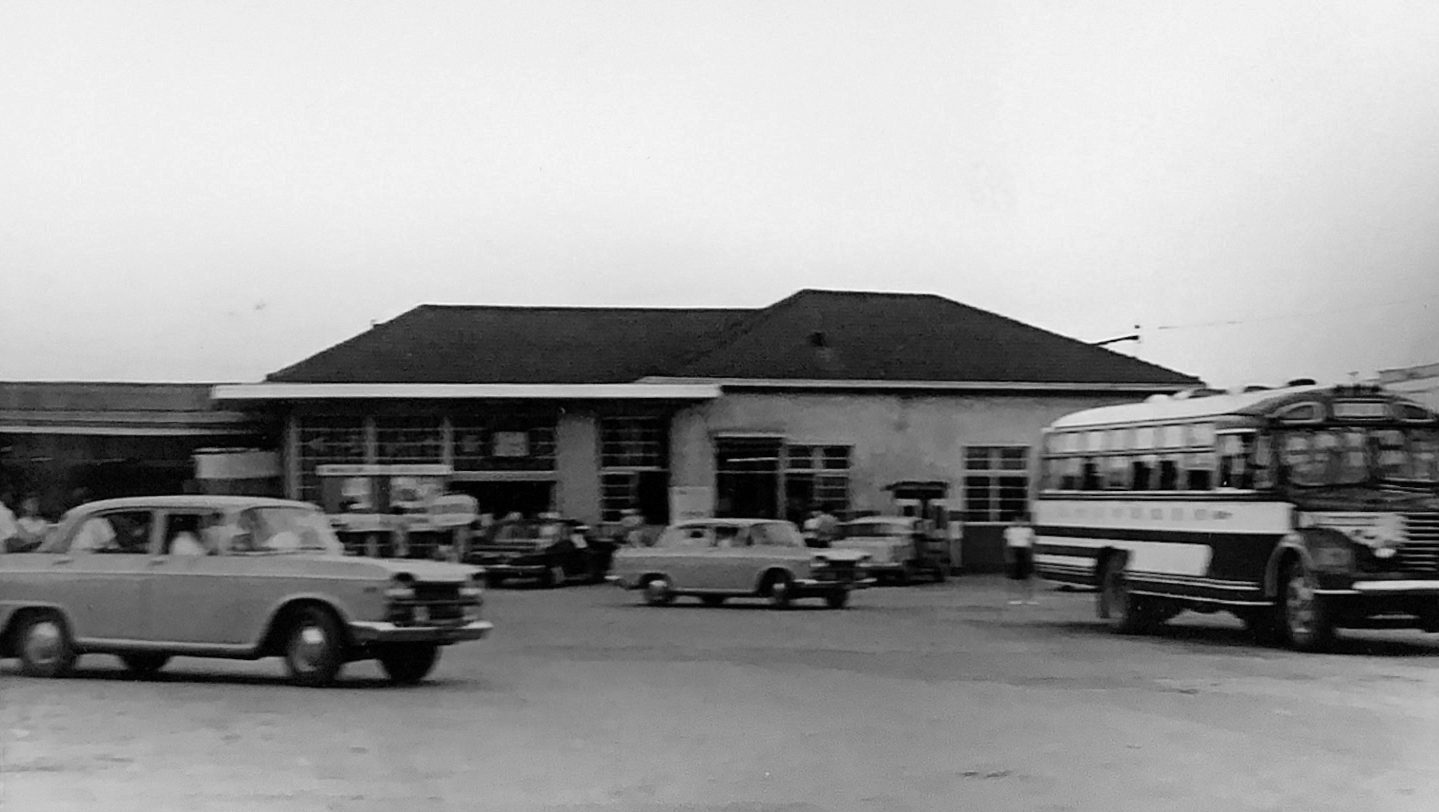 Kuroiso Station (1966)